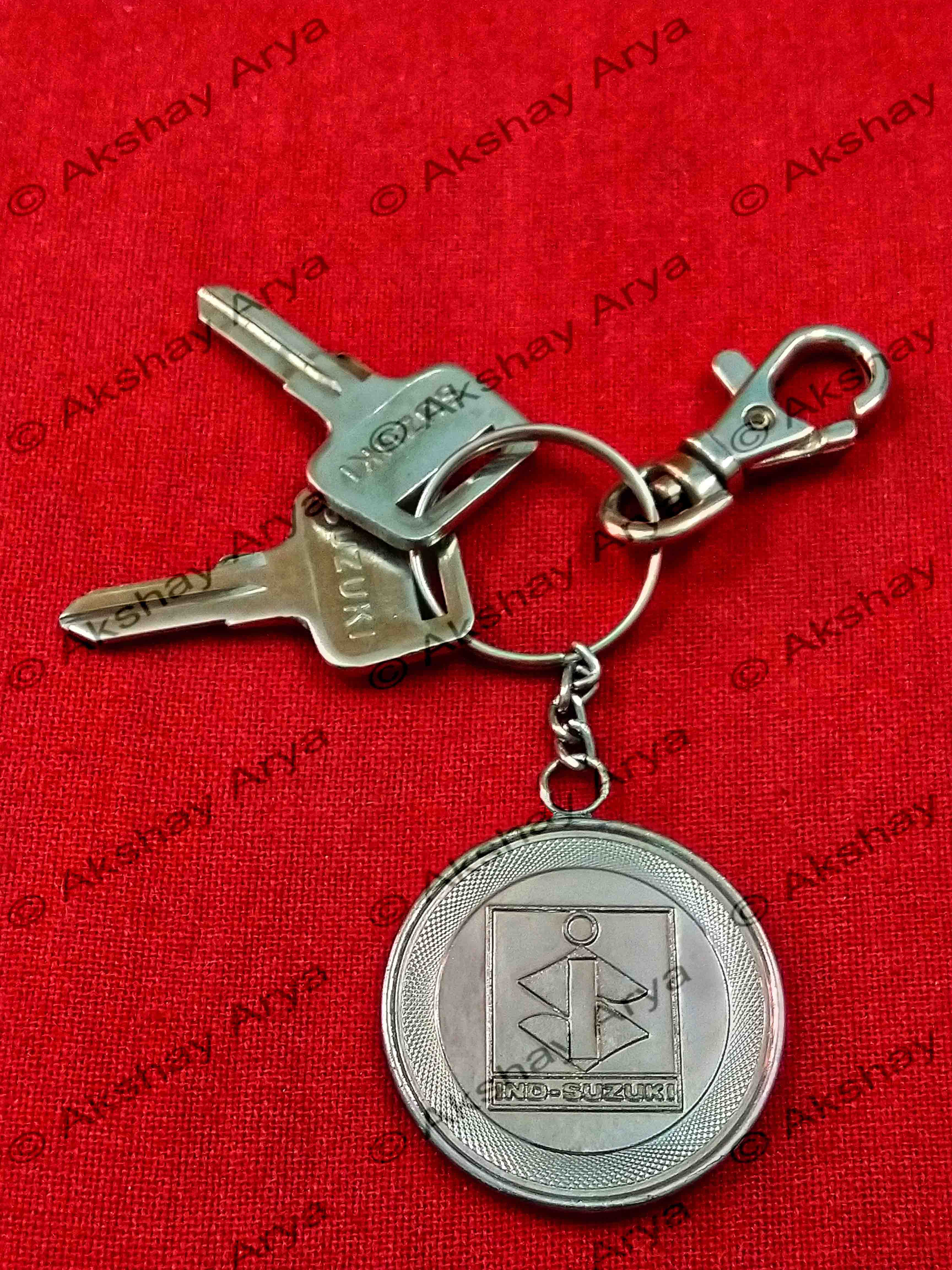 Ind Suzuki Key Chain Back